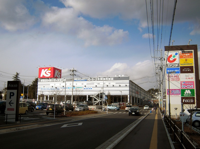 Foreo Sendai Miyanomori (K's Denki Higashi-Sendai)